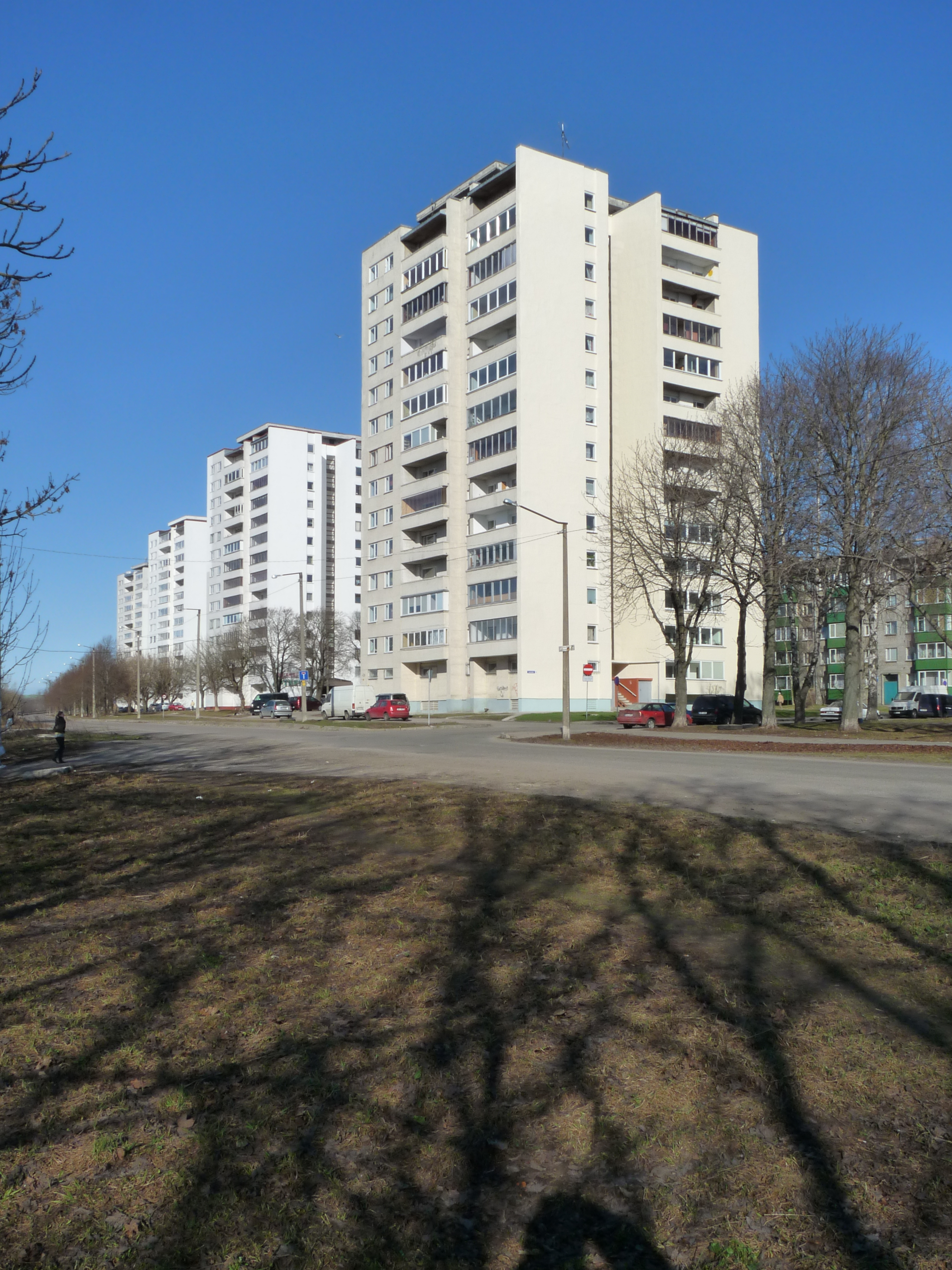 Apartment buildings in Sikupilli. Related article: "Ants Attack" (in Russian, about ants living in those houses)